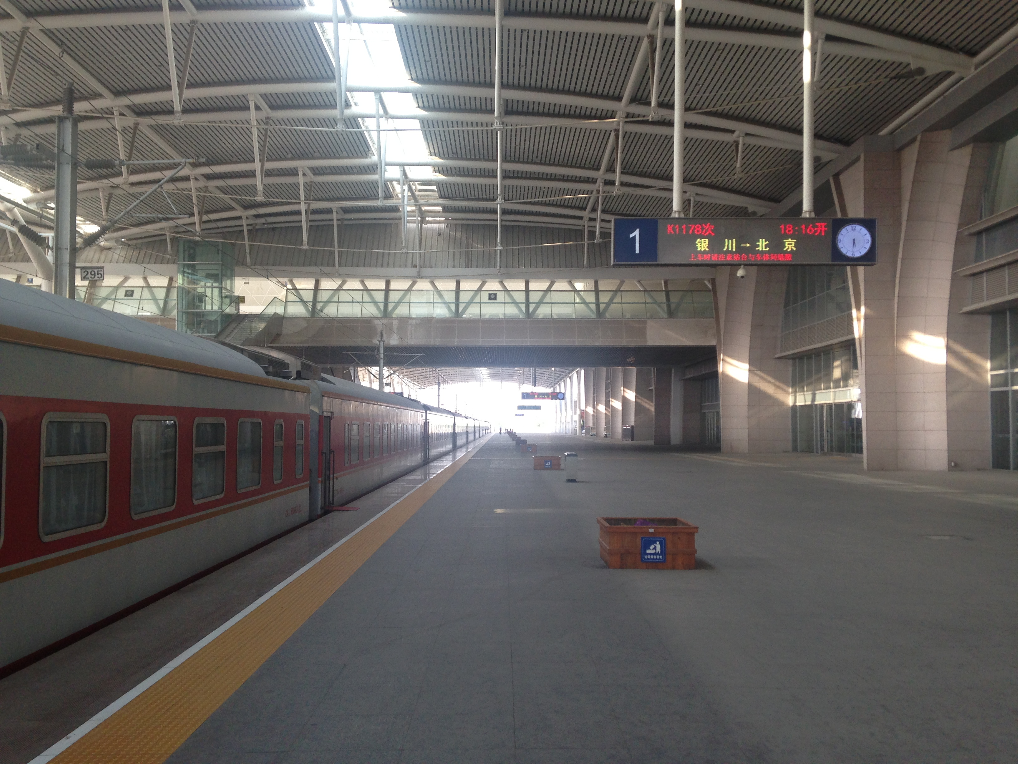 China Railways 25G passenger coaches, Yinchuan Railway Station, China